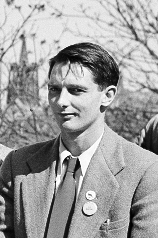 International Union of Radio Science conference at the University of Sydney, photo likely taken 11 August 1952. ATNF Historical Photographic Archive: B2842-43.